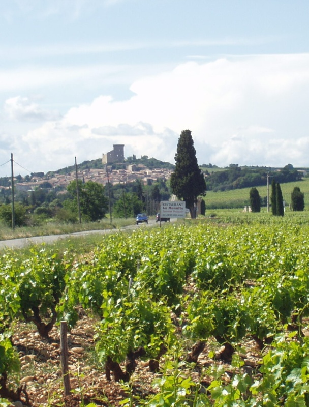 Châteuneuf-du-Pape and its vineyards.